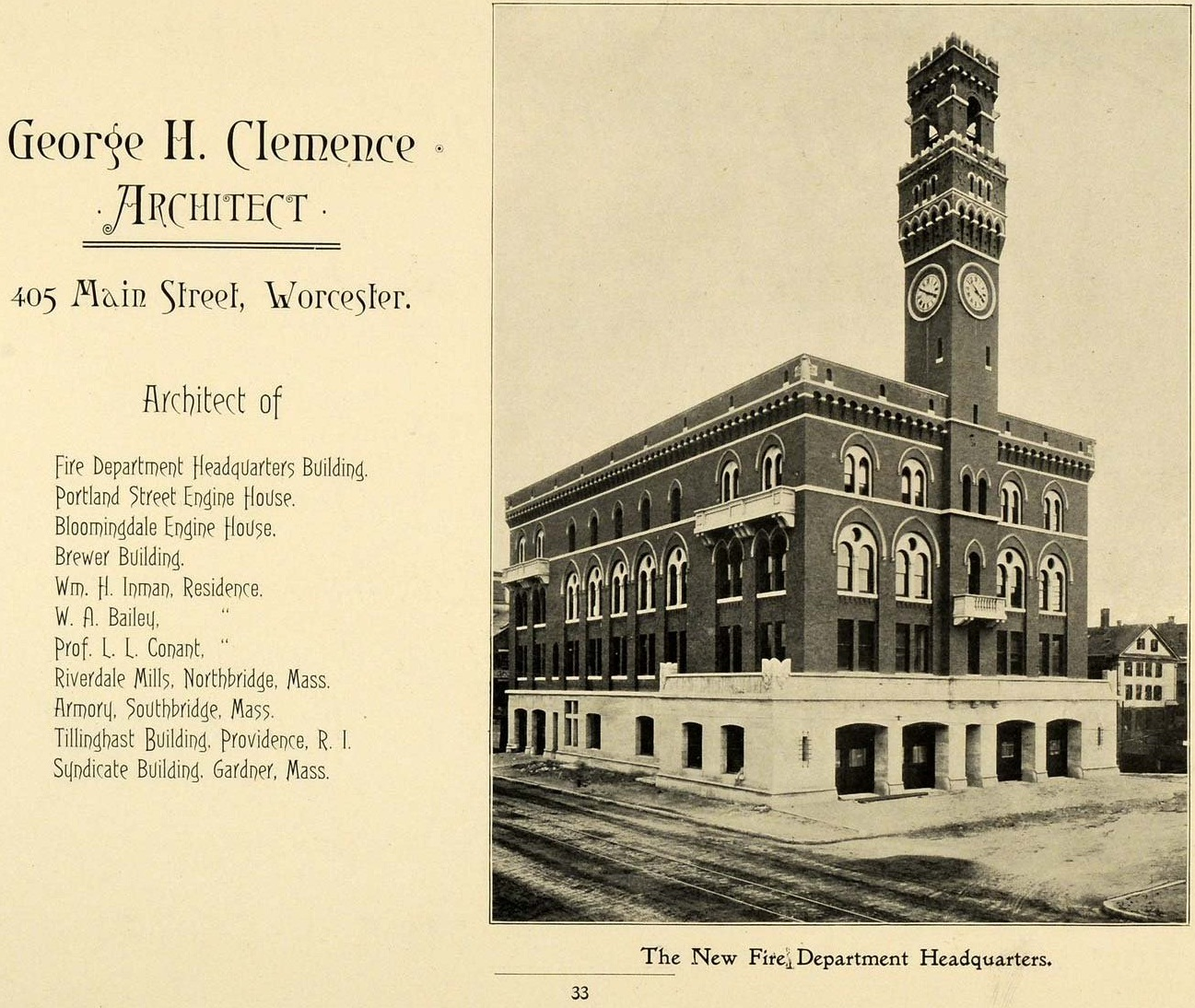 Print advertisement for architect George H. Clemence of Worcester, Mass.